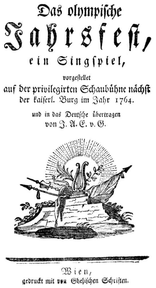 Florian Leopold Gassmann - Das olympische Jahrsfest - titlepage of the libretto - Wien 1764